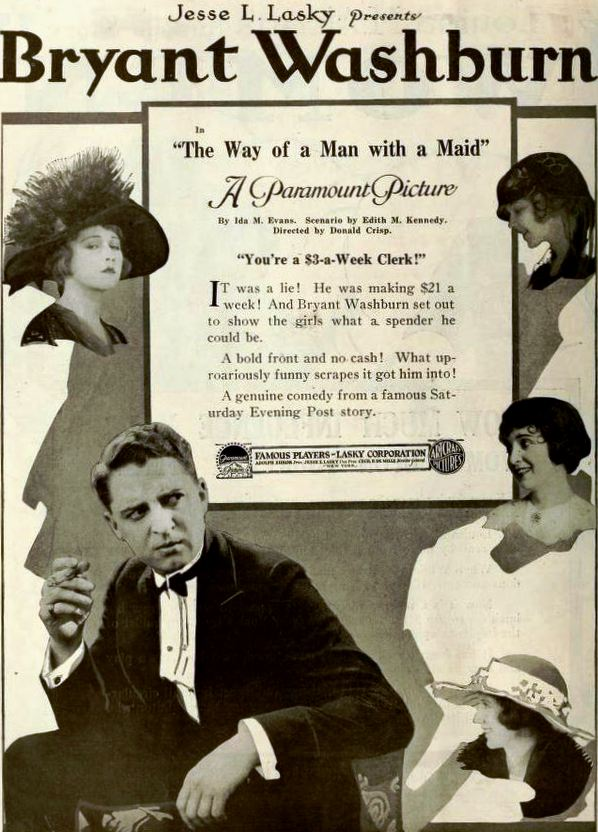 Advertisement for the American comedy film The Way of a Man with a Maid (1918) with Bryant Washburn and Wanda Hawley, on page 142 of the January 11, 1919 Moving Picture World.